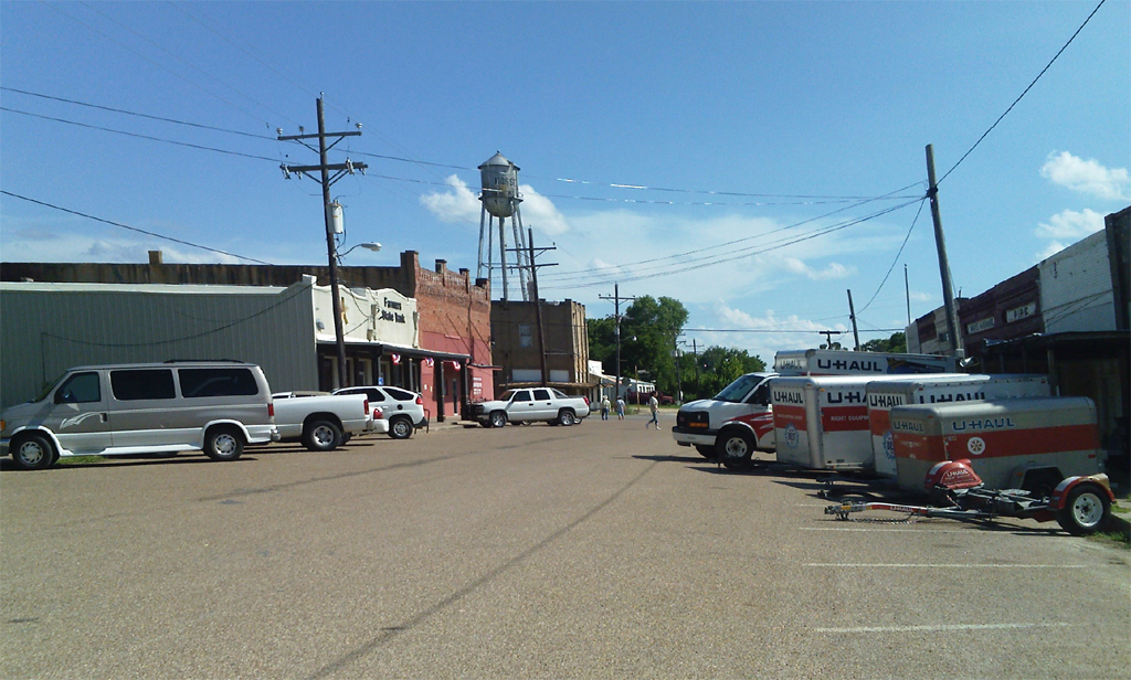 Downtown Kosse, Texas.